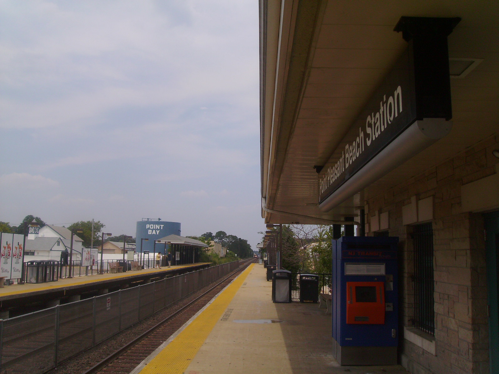 The New Jersey Transit station at Point Pleasant Beach, New Jersey. A Bay Head local making its next-to-last stop to Bay Head is approaching in the distance.